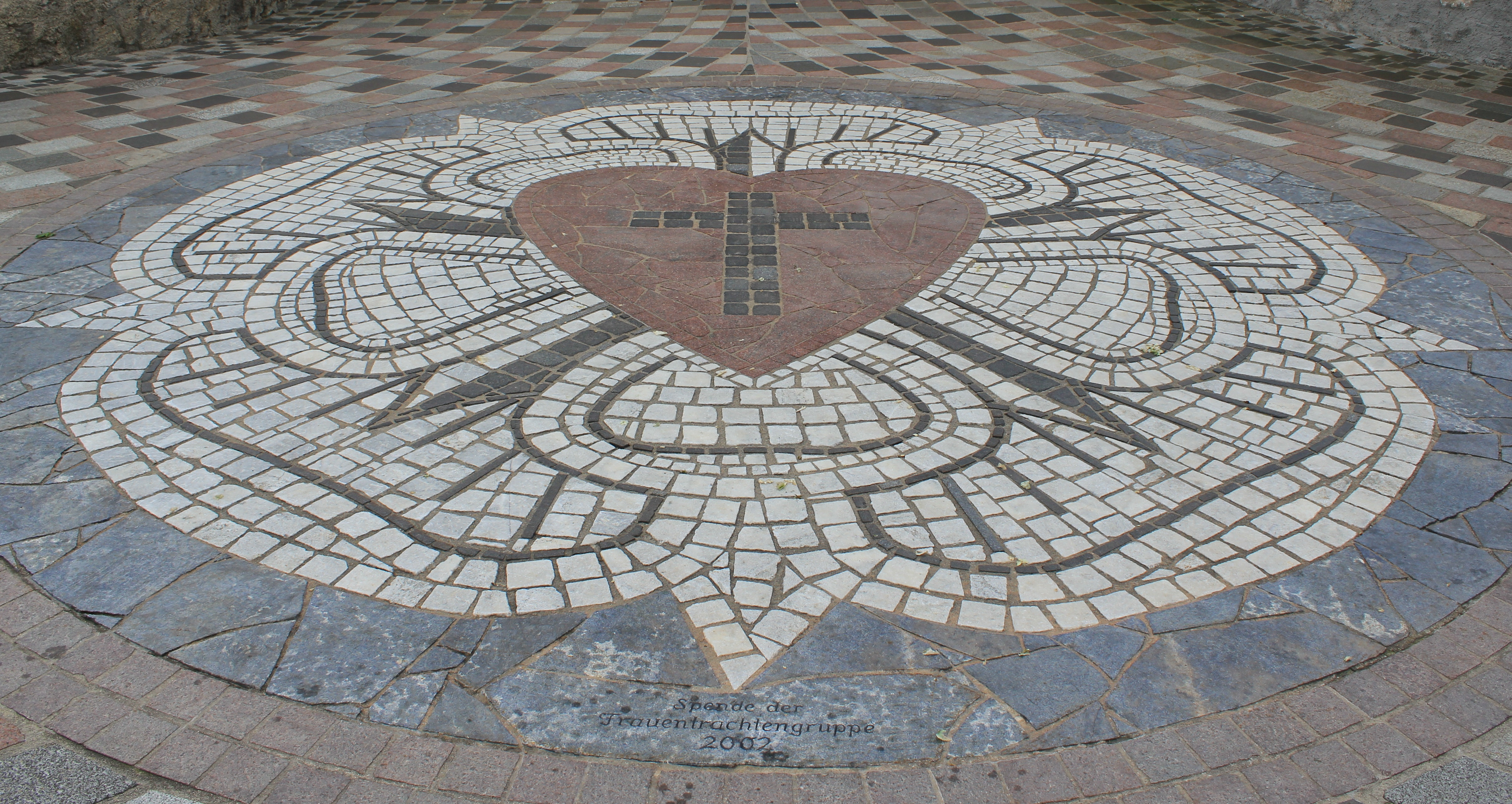 Luterian church in Feld am See - Luther rose